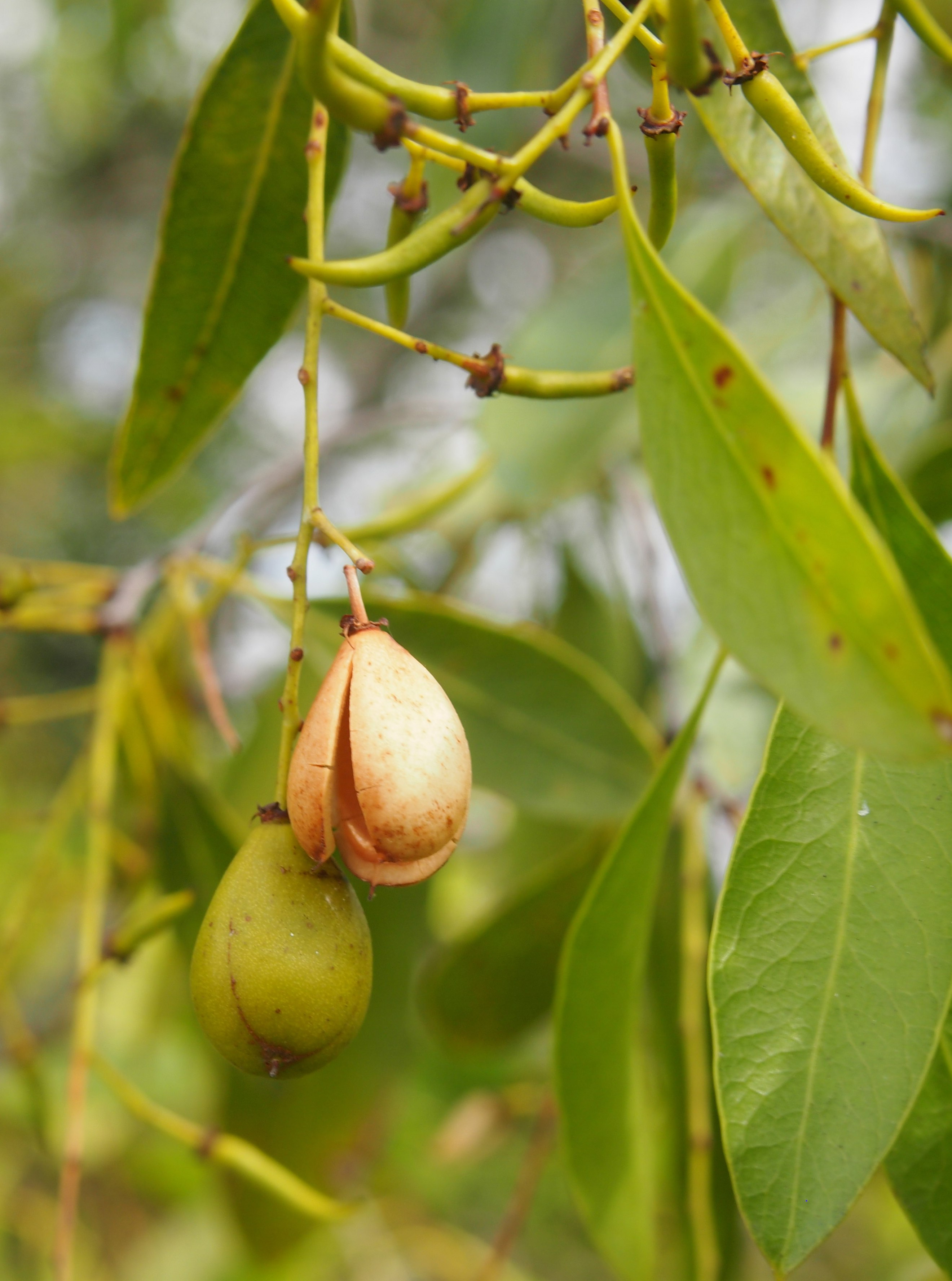 Denhamia oleaster fruit close up